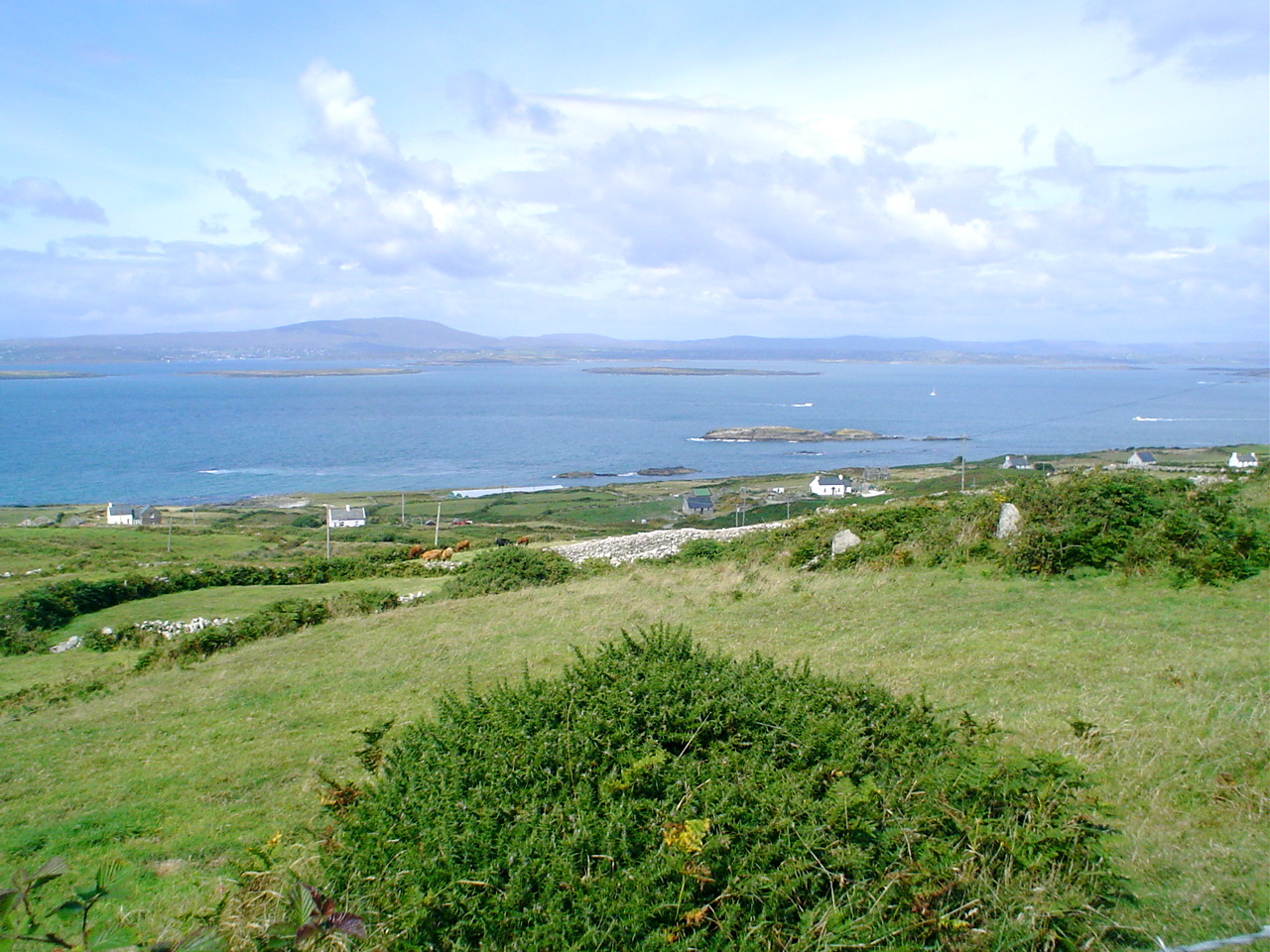 Cape Clear northern view